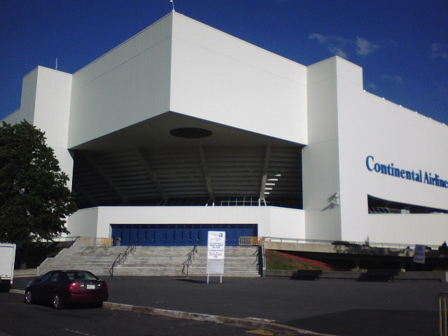 Continental Airlines Arena. (Photograph taken by myself)